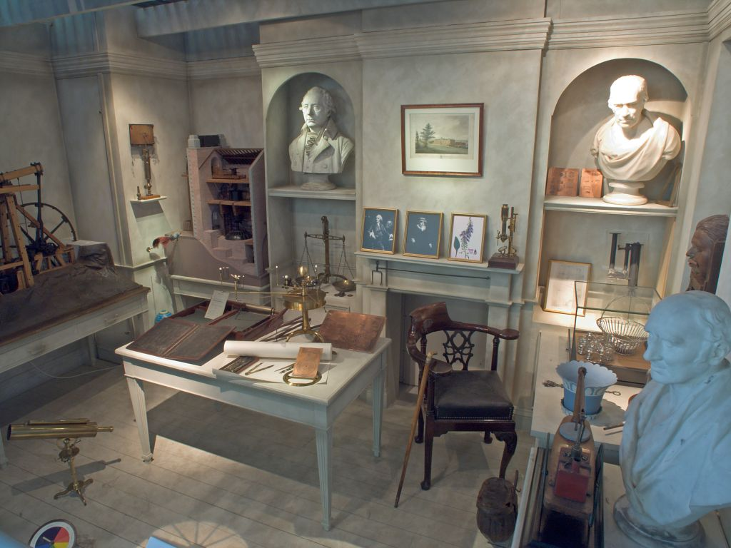 Display of objects relating to James Watt. Matthew Boulton, William Murdoch and associates, including other members of the Lunar Society, at Thinktank, Birmingham Science Museum. Editing undertaken: Unsharp Mask